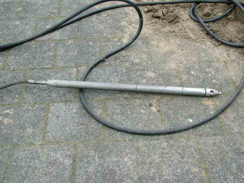 cable digging tool, powered by compressed air, hammers its way through the ground.